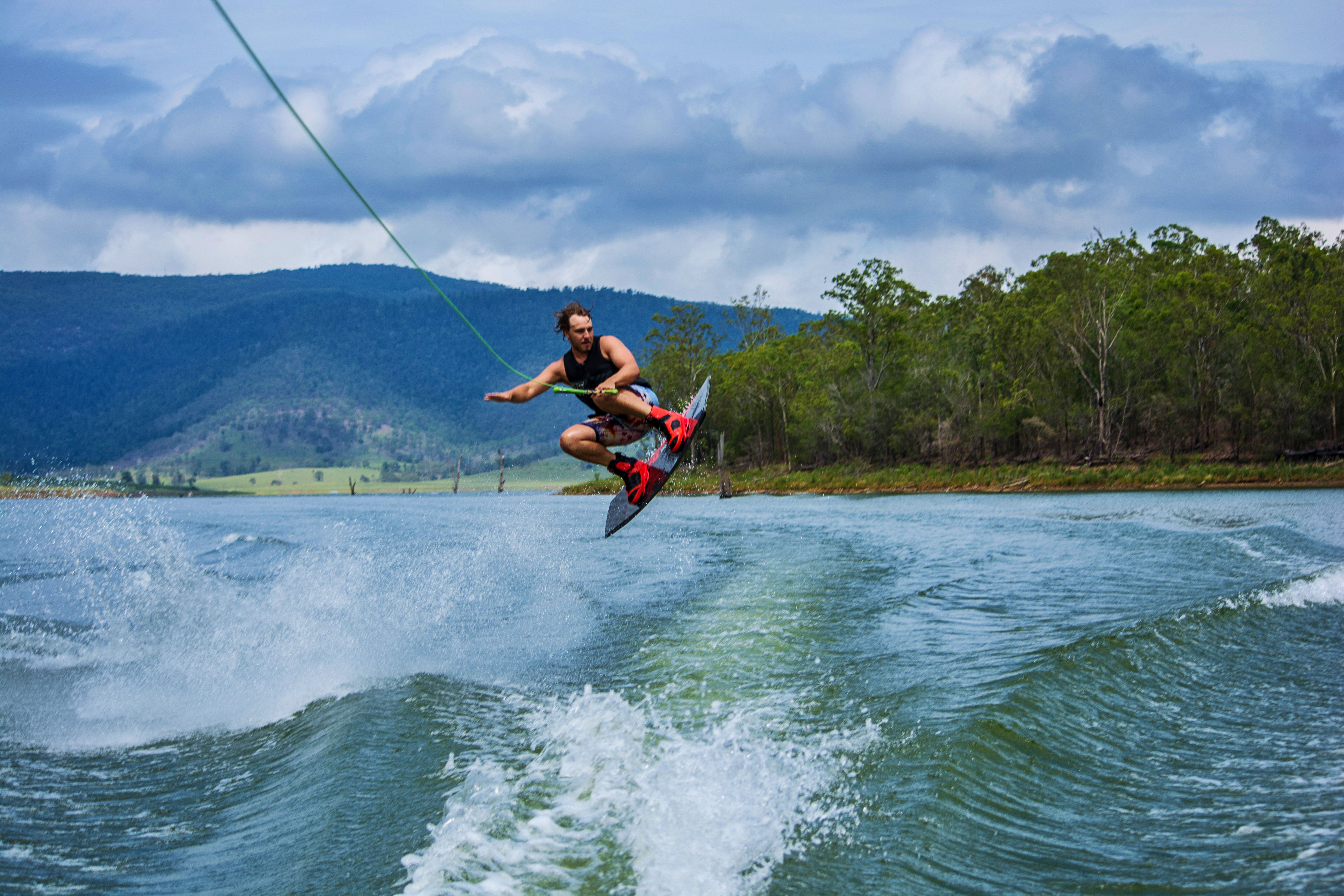 Somerset Dam, Australia